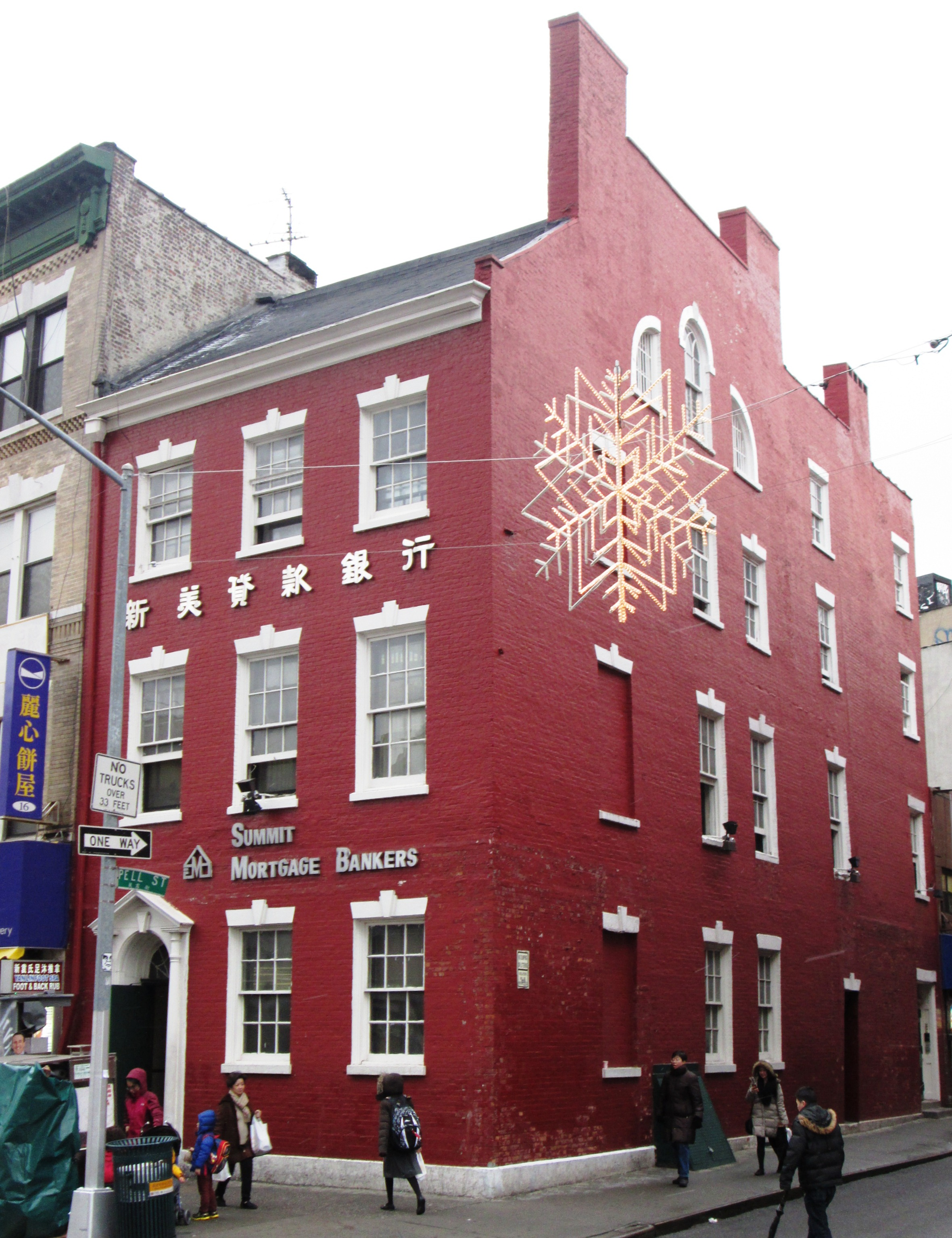 The Edward Mooney House at 18 Bowery on the corner of Pell Street in the Bowery neighborhood of Manhattan, New York City was built between 1785 and 1789 in the Georgian or Early Federal style, and is the oldest surviving town house in that style in the city. Mooney was a merchant who purchased the property from the forfeiture of James Delancey, who was a Loyalist during the American Revolution, and had his assets seized afterwards. Mooney lived in the house until his death c.1800, and by the 1840s the residential neighborhood had changed significantly and the house was a brothel. The house was designed a NYC landmark in 1966. (Sources: NYCLPC designation report) and Guide to NYC Landmarks (4th ed.)